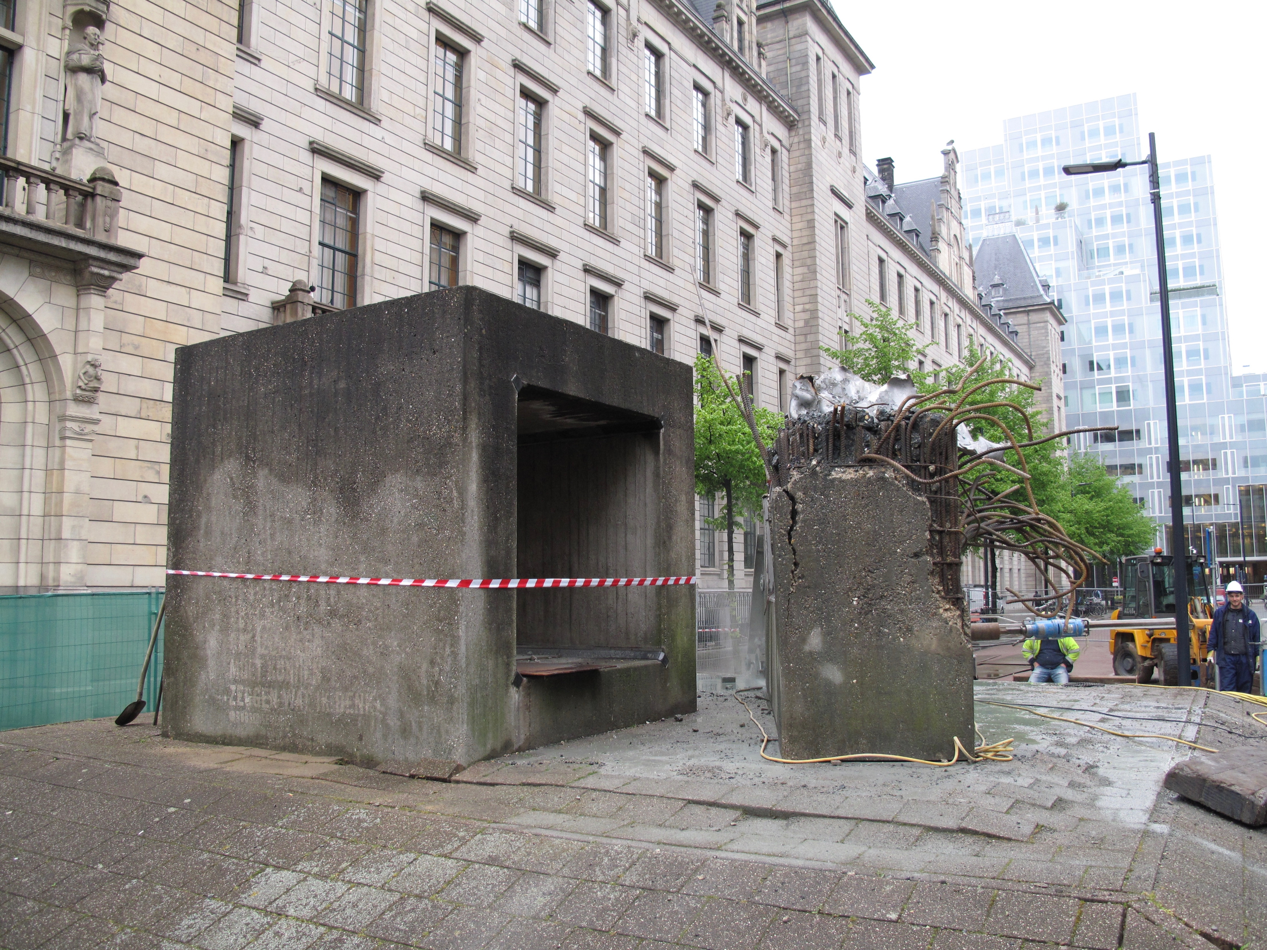 Public sculpture by Jan van Munster in Rotterdam